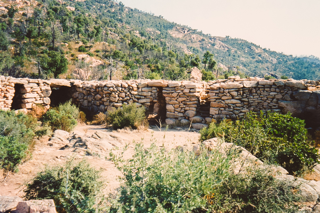 Megalithic monument of Casteddu d'Araghju (Corse-du-Sud) as seen from the inside (1998)